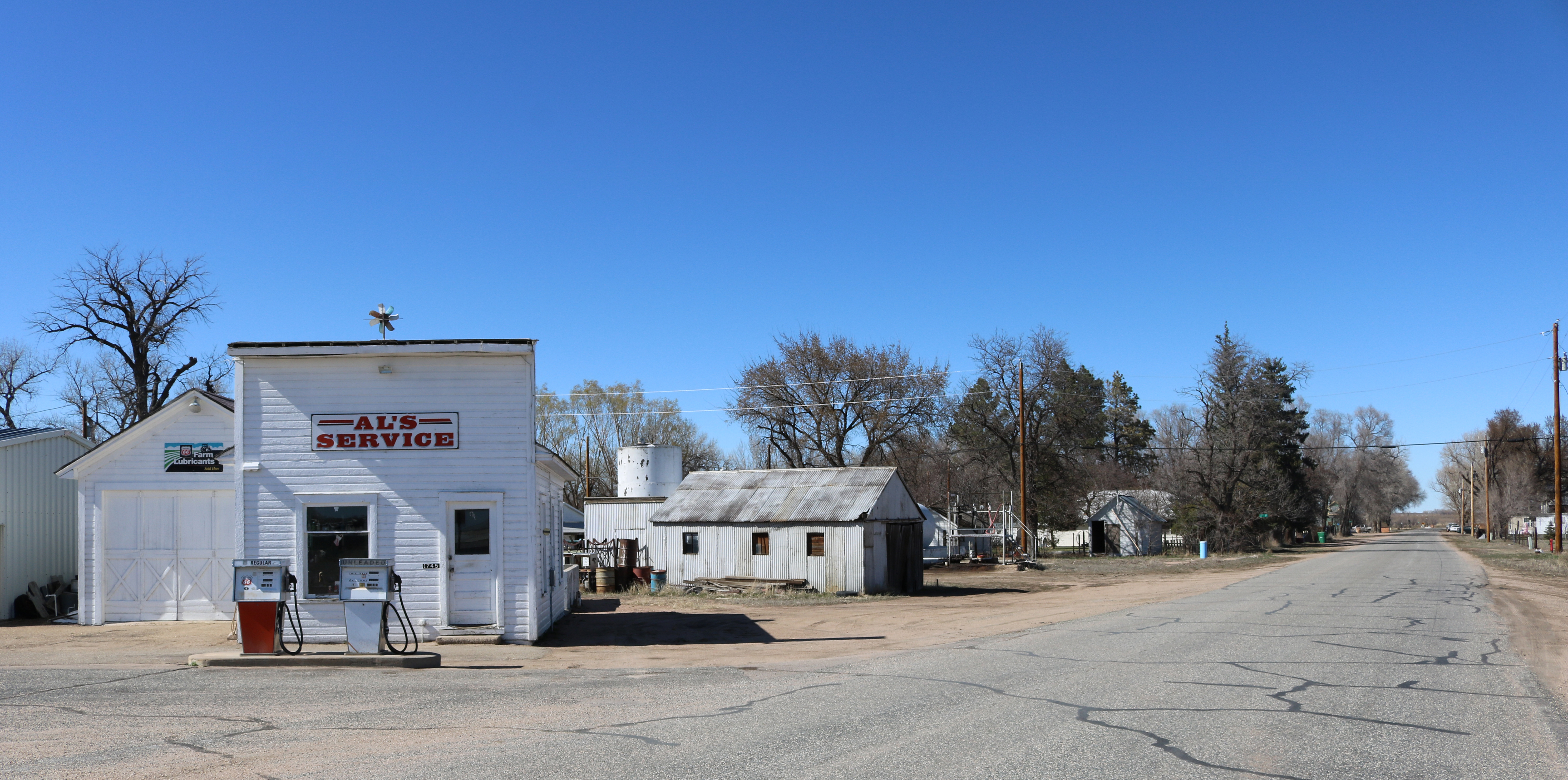 A view of Washington Avenue in Orchard, Colorado. Orchard is in Morgan County.